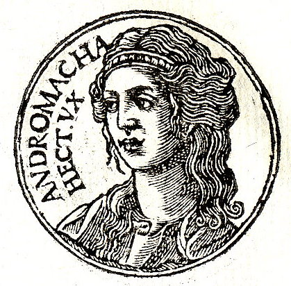 Andromache (Ancient Greek: Ἀνδρομάχη) was the wife of Hector and daughter of Eetion, and sister to Podes.